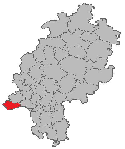 Map of the district court Rüdesheim am Rhein in Hesse